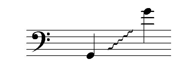 voice range of a baritone